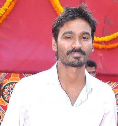 Dhanush at the launch of 'Raanjhanaa'